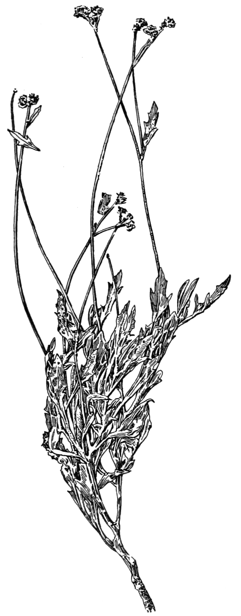 Asa Gray specimen of a guayule plant